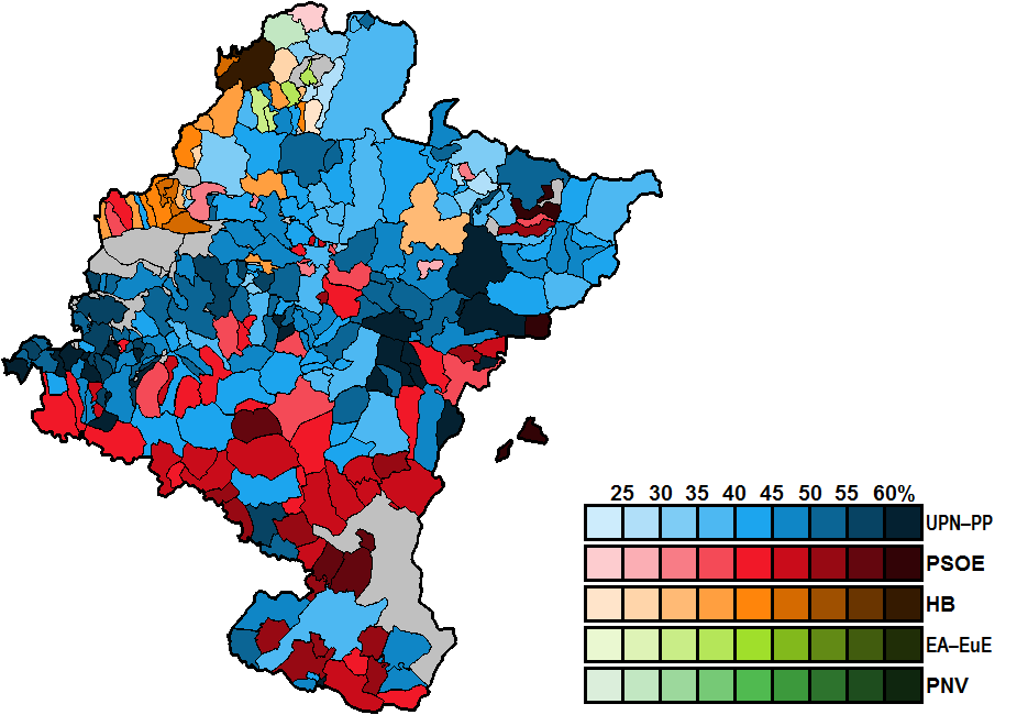 Most-voted party in Navarre municipalities, showing vote share obtained, in the Spanish general election, 1993.